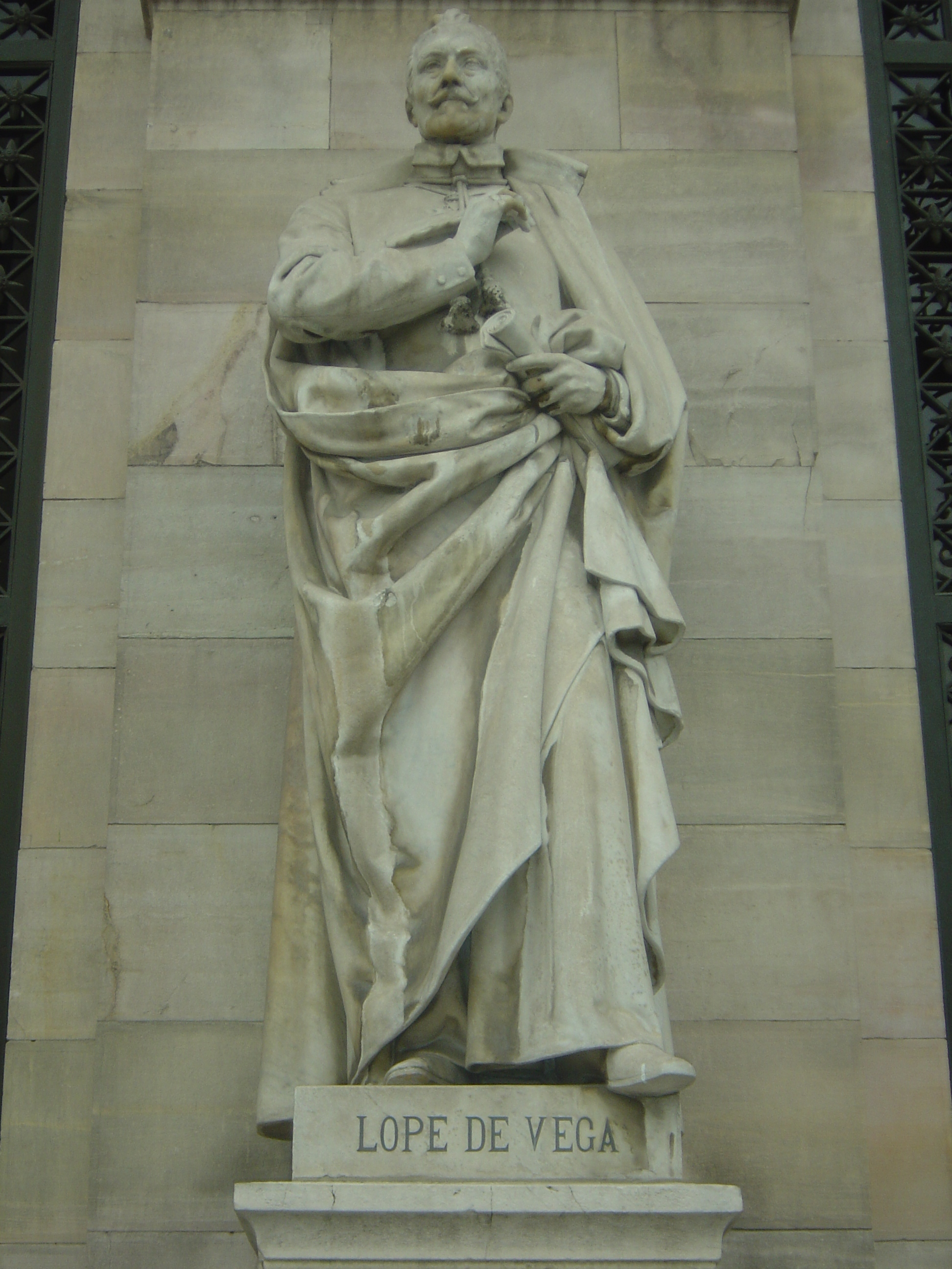 Statue of Lope de Vega, National Library of Madrid